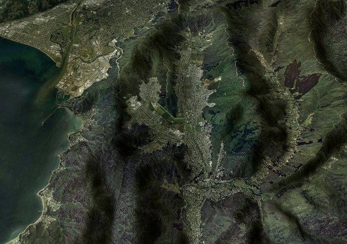 I made this 3d map myself using a recent(2005-2006) orthophoto map overlaid over SRTM radar elevation data.